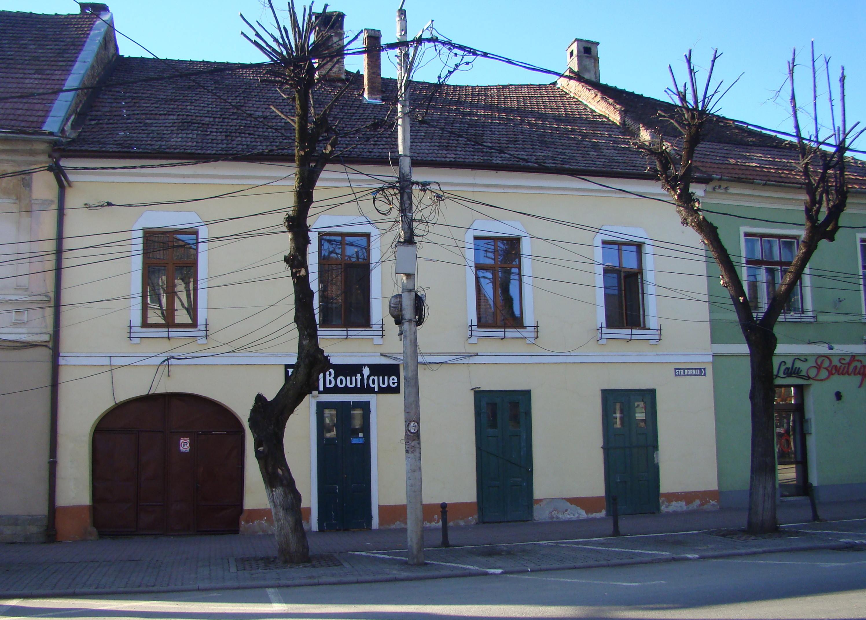 House, historic monument, in Bistriţa, Dornei street, number 43